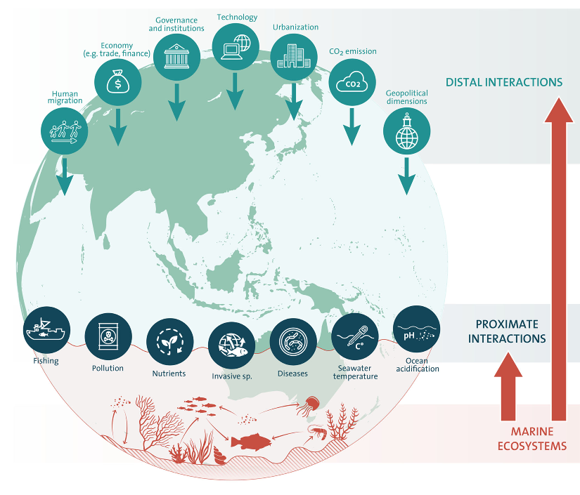 "Marine ecosystem science on an intertwined planet. Changes in marine ecosystem dynamics are influenced by socioeconomic activities (for example, fishing, pollution) and human-induced biophysical change (for example, temperature, ocean acidification) and can interact and severely impact marine ecosystem dynamics and the ecosystem services they generate to society. Understanding these direct—or proximate—interactions is an important step towards sustainable use of marine ecosystems. However, proximate interactions are embedded in a much broader socioeconomic context where, for example, economy through trade and finance, human migration and technological advances, operate and interact at a global scale, influencing proximate relationships. These indirect—or distal—interactions add dimensionality and complexity to the global marine social-ecological system." – [1]